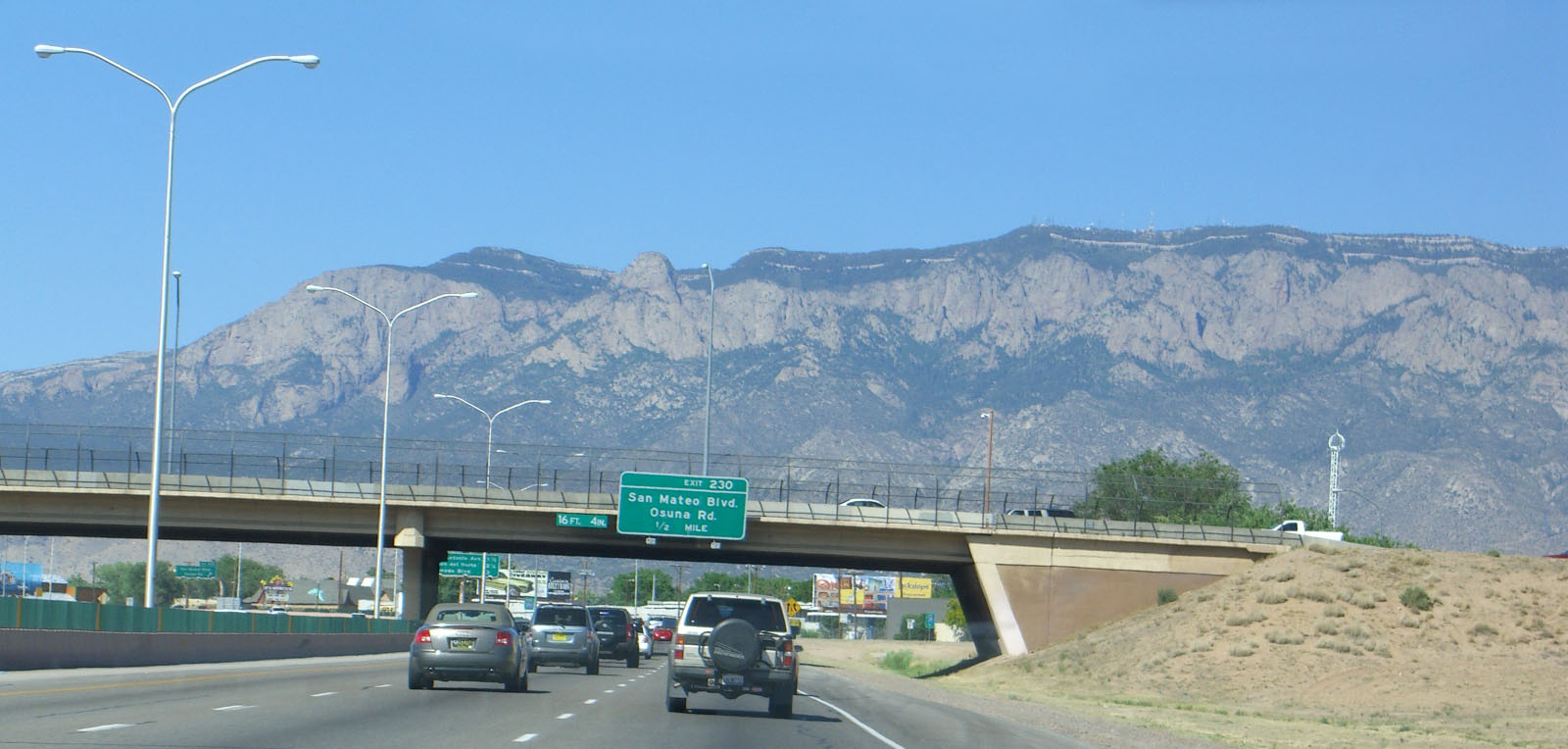 Sandia Mountains and Interstate 25 in Albuquerque, New Mexico.